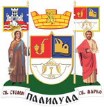 Palilula coats of arms, Serbia